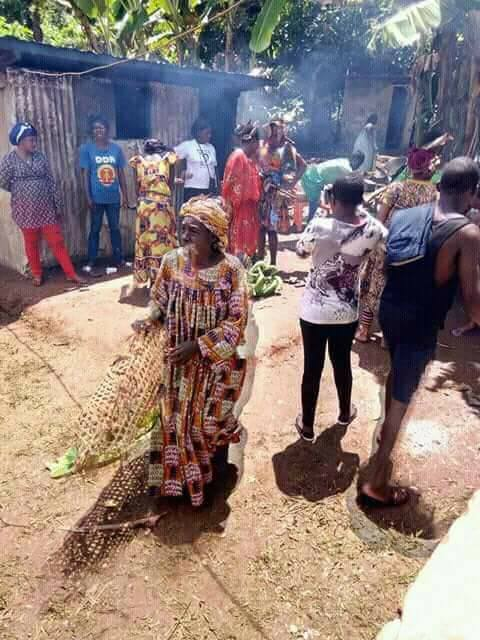 Une manifestation villageoise